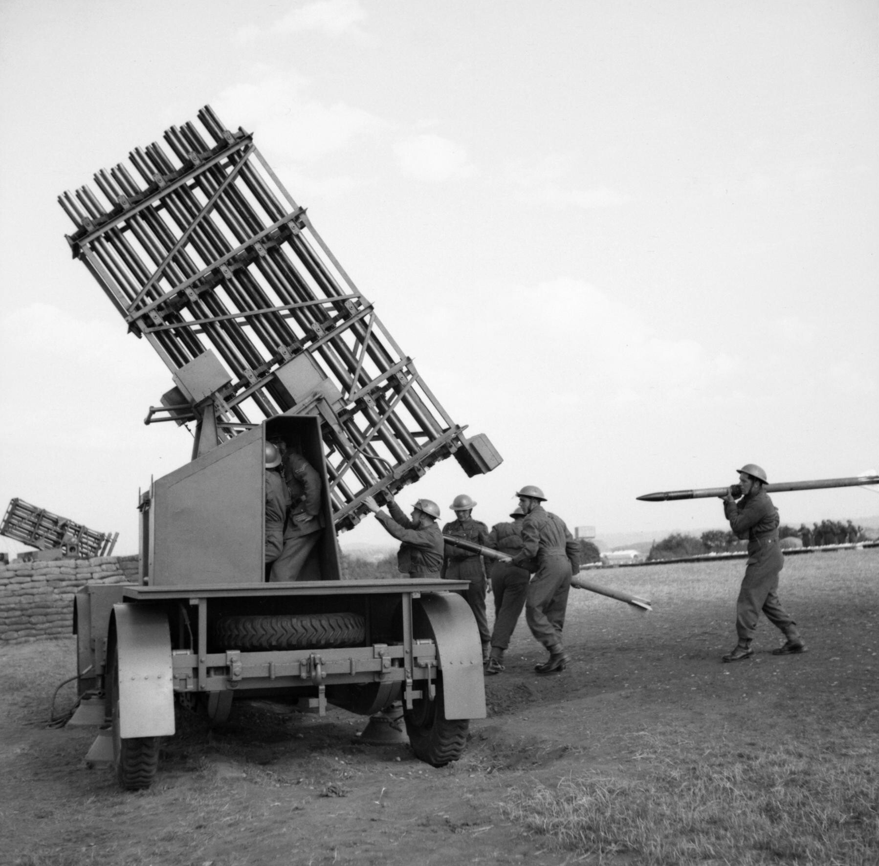 The British Army in the United Kingdom 1939-45 Royal Artillerymen at a 'Z' Battery load 4-inch anti-aircraft rockets into a mobile launcher, 18 June 1941.